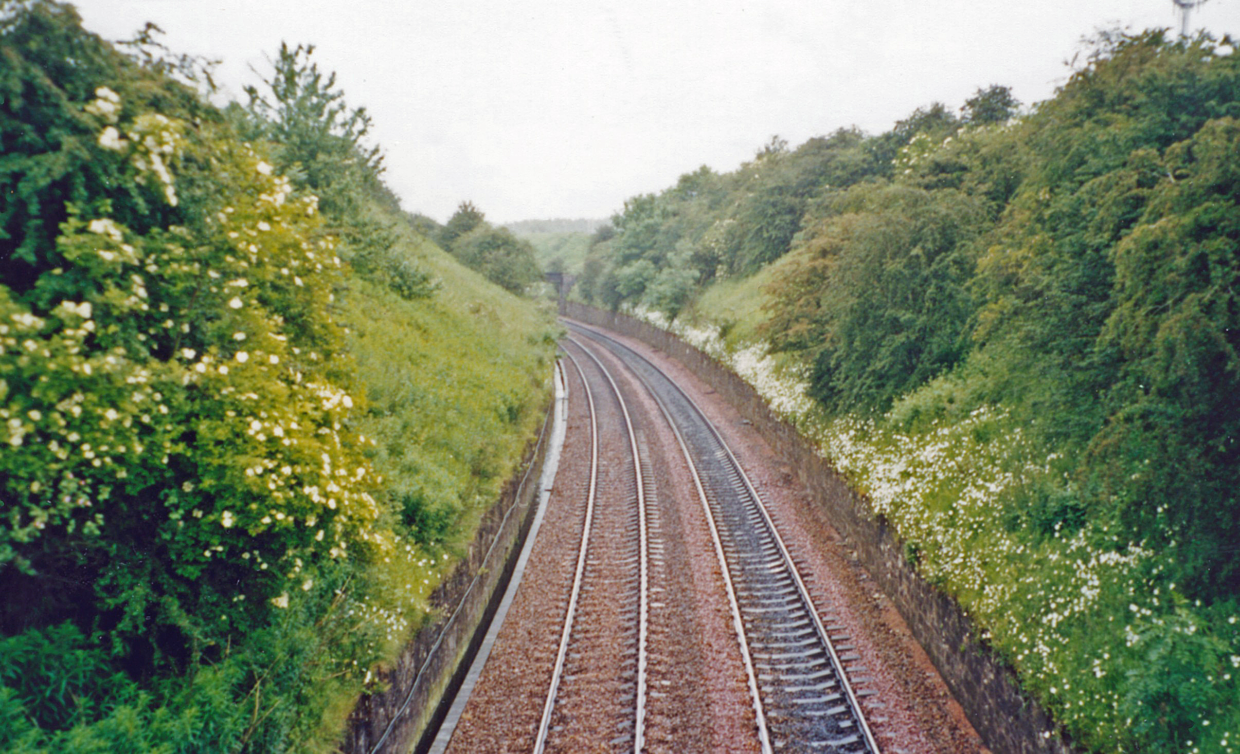 Site of Falkland Road station. View northward, towards Dundee and Aberdeen: ex-NBR Edinburgh/Glasgow - Dundee - Montrose - Kinnaber Junction - (Aberdeen) main line. The station had been closed to passengers 15/9/58, to goods 10/8/64